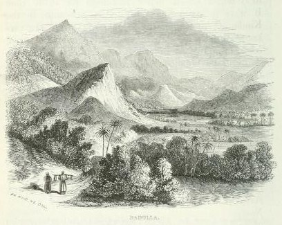 Ceylon ThemCoffee Regions Badulla